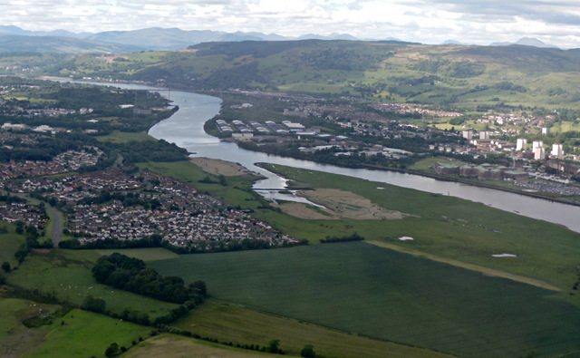 Erskine from the air